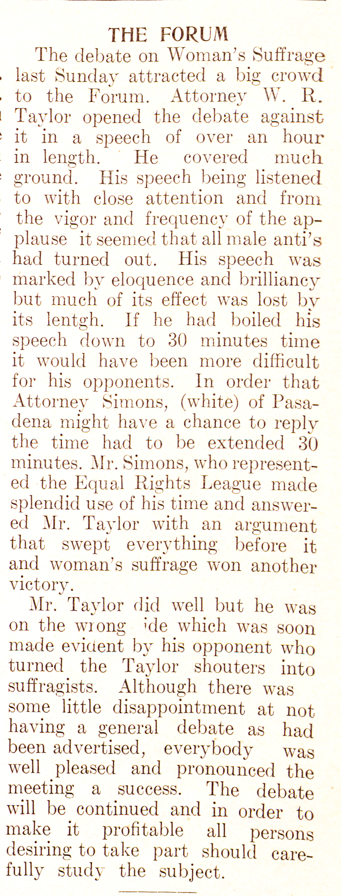 A preliminary scan of the Liberator Volume 9, Issue 18, 1911-06-16, p. 02 made by the Los Angeles Public Library from the Edmonds Family Collection ( for the 2018 Los Angeles City Hall Exhibit, "Write in America," presented in part by the office of Los Angeles City Council President, Herb Wesson. This article is significant because it illustrates the Liberator's support of women's suffrage. Publication Information The Liberator. Publisher: Los Angeles, Calif. : Liberator Pub. Co., [189-]-1902. Edition/Format: Journal, magazine : Periodical : English Subjects African Americans -- California -- Los Angeles -- Periodicals. African Americans. California -- Los Angeles. OCLC record